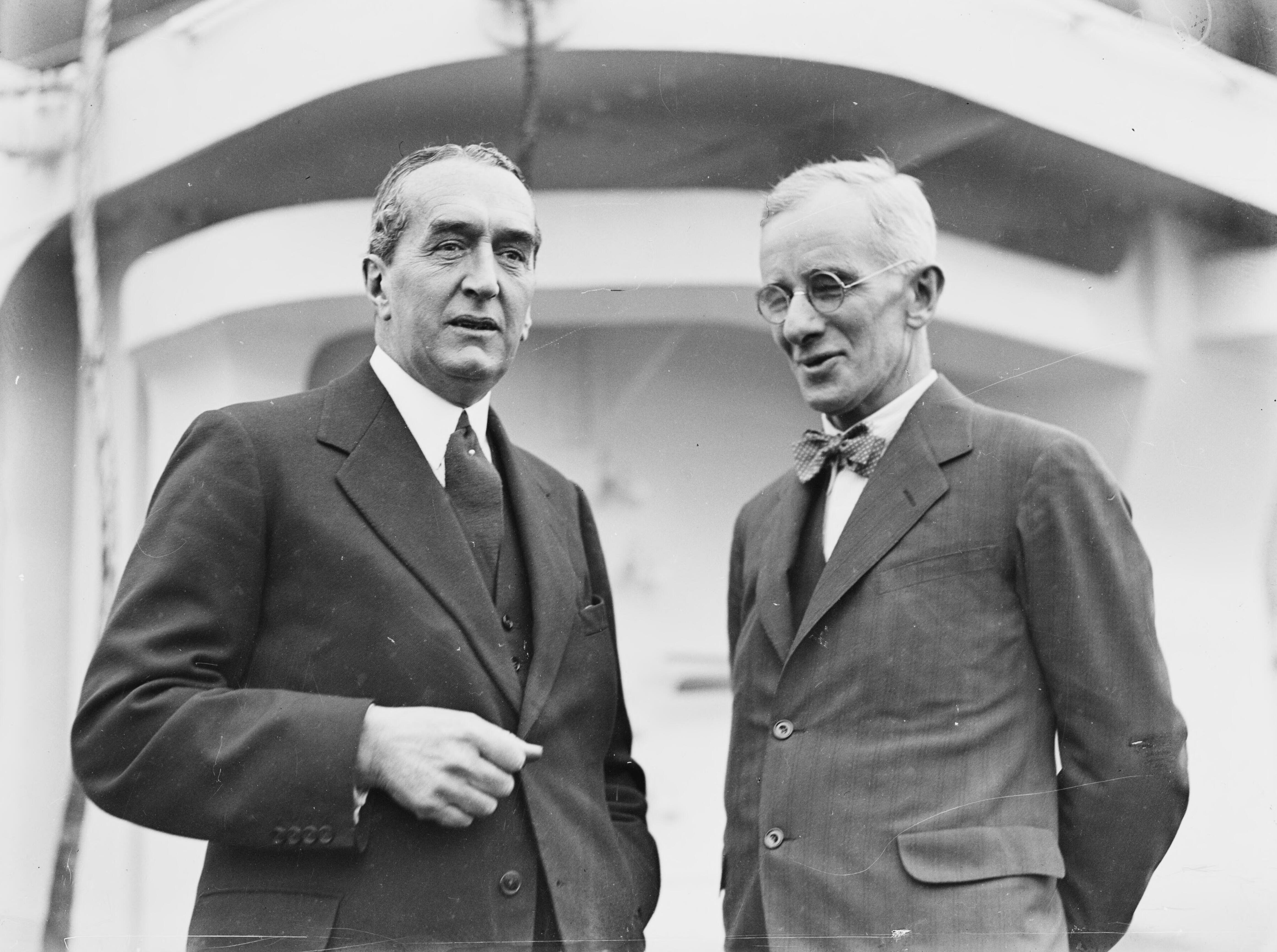 Australian politicians Stanley Bruce and Henry Gullett in Canberra on 3 July 1935